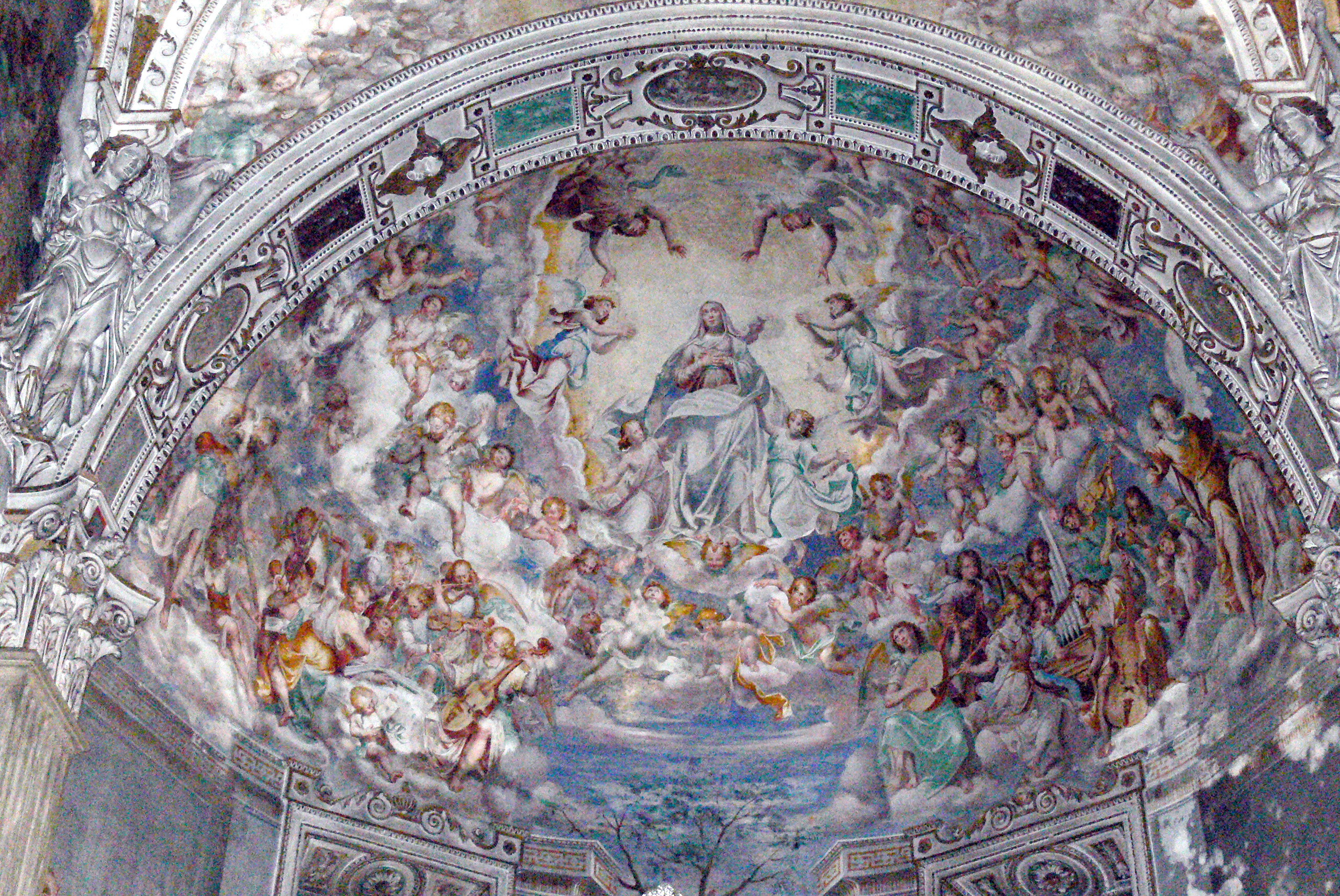 Madonna di Campagna (Verbania-Pallanza). Fresco (1519) "Mary assumption" by Aurelio Luini and Carlo Urbino.